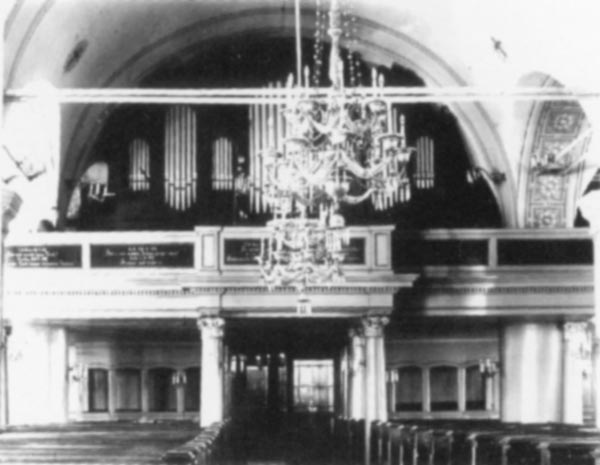 Organ of St. Michael Lutheran Church in Moscow